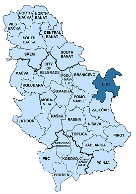 Map of disricts of Serbia